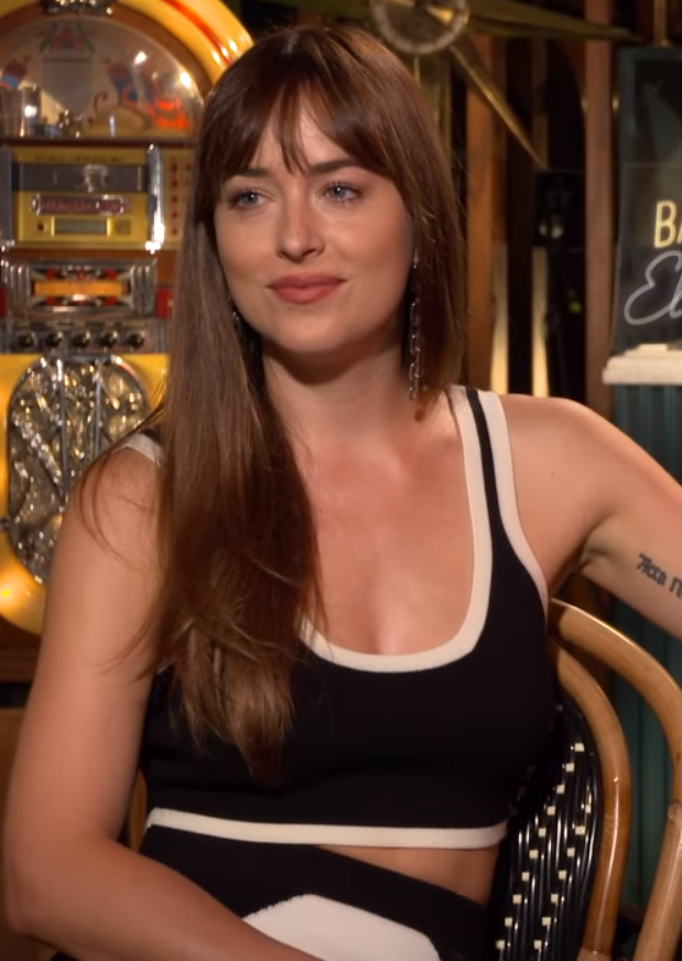 Dakota Johnson, in 2018.